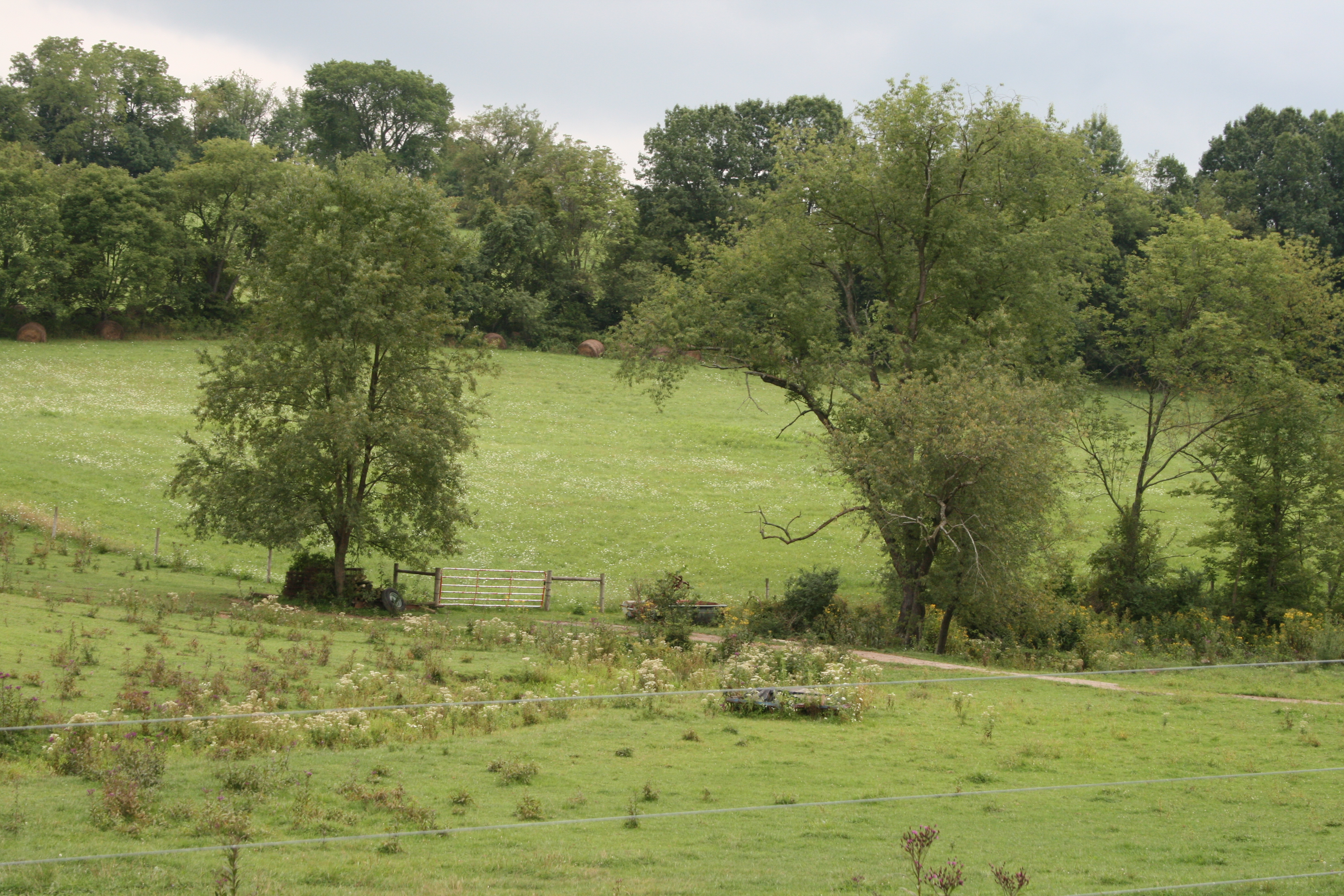 A view of a typical pastoral scene in Eighty-Four, Pennsylvania.